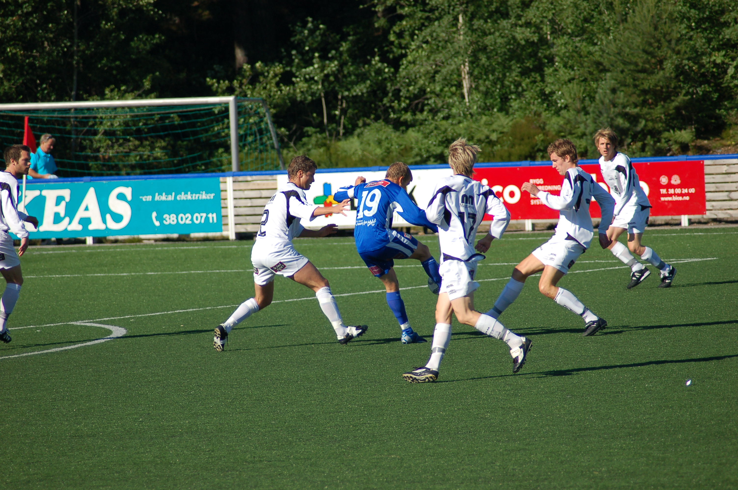 Football match in 2. division in Norway between Flekkerøy Idrettslag (blue) and Ålgård FK (white).